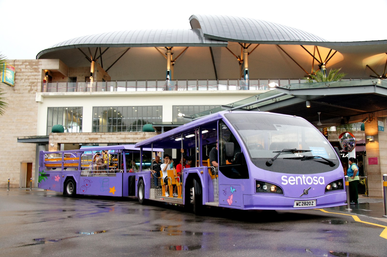 A Volvo B12BLEA bus designed to resemble a road tram. Bodywork by ComfortDelGro Engineering.